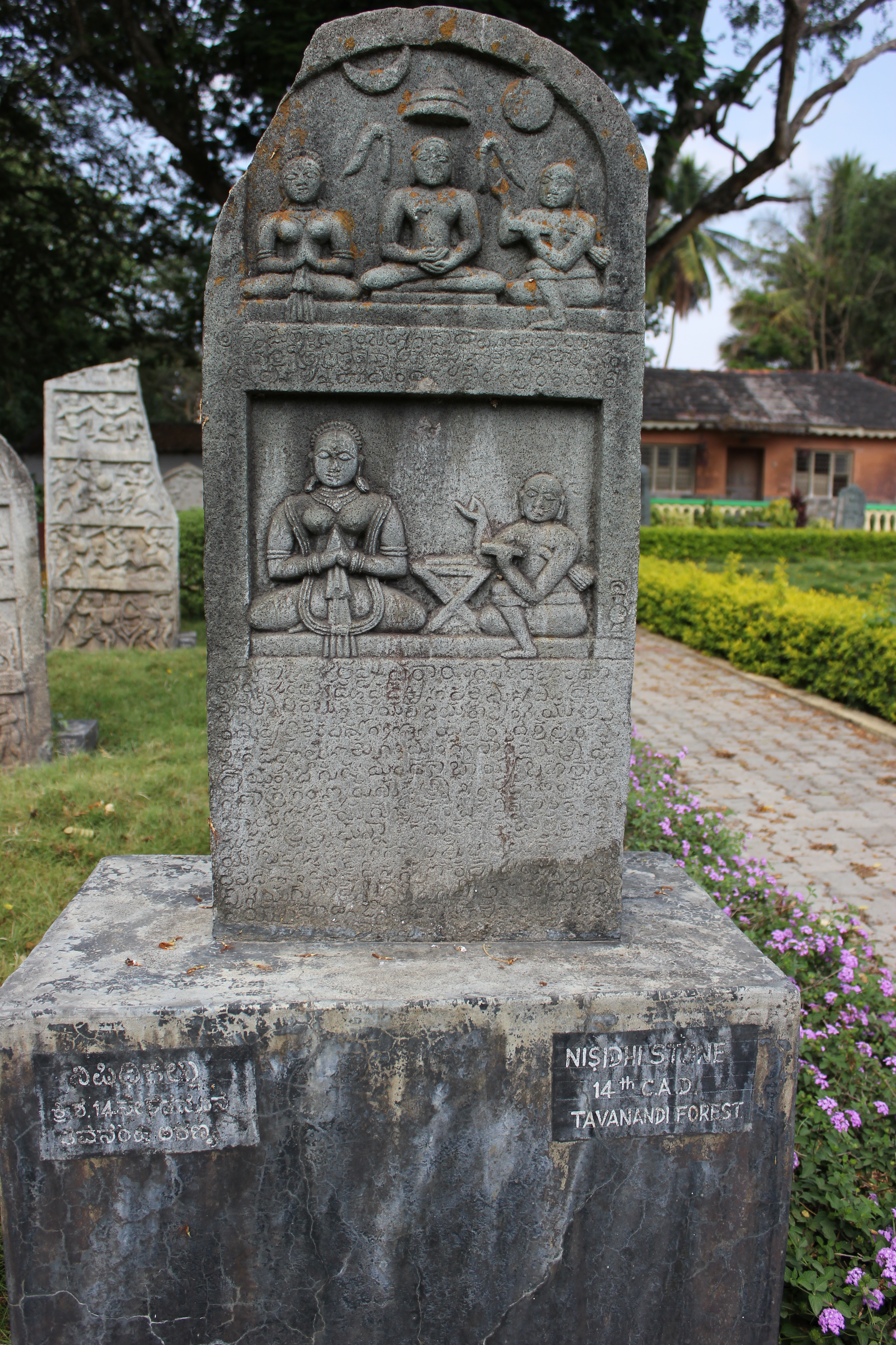 This photograph was taken at the Shivappa Nayaka palace and museum in Shivamogga city (formerly Shimoga) in Karnataka state, India